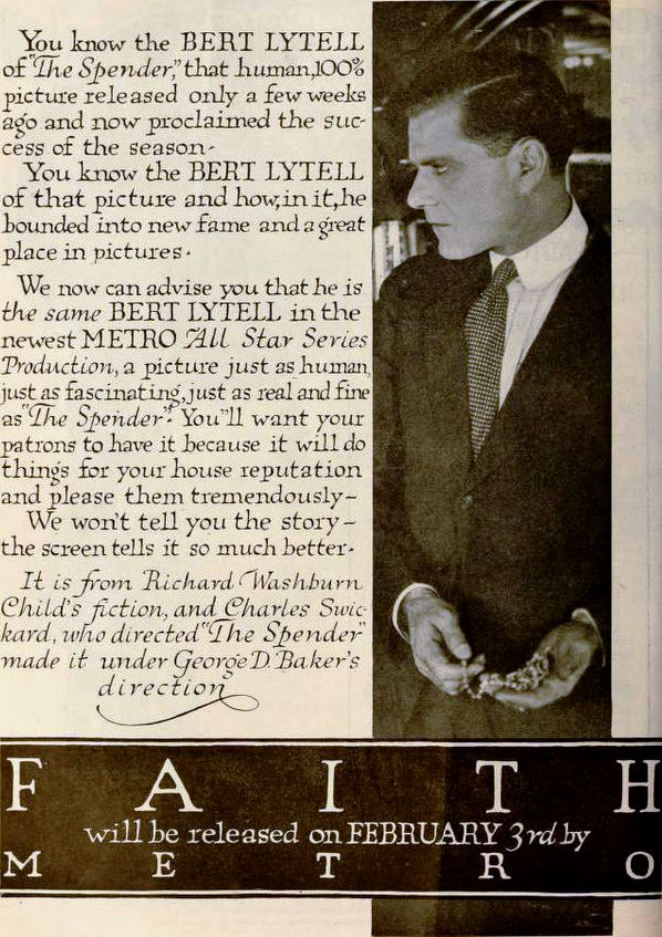 Ad for the American film Faith (1919) with Bert Lytell, on page 702 of the February 8, 1919 Moving Picture World.